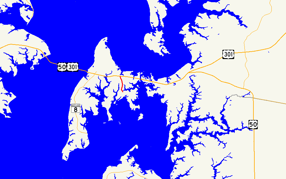 Map of Maryland Route 552